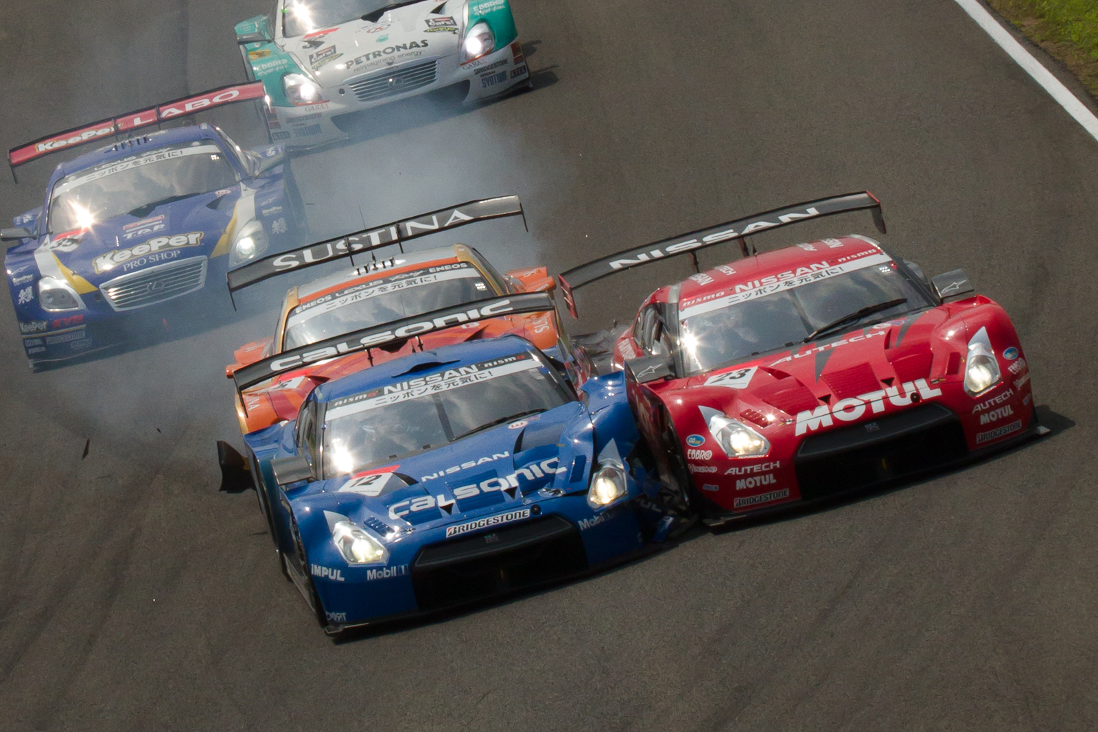 Super GT 2012 Rd.4 SUGO GT 300km: Collision between Calsonic Impul GT-R (João Paulo de Oliveira) and Motul Autech GT-R (Satoshi Motoyama) at the start of the race.